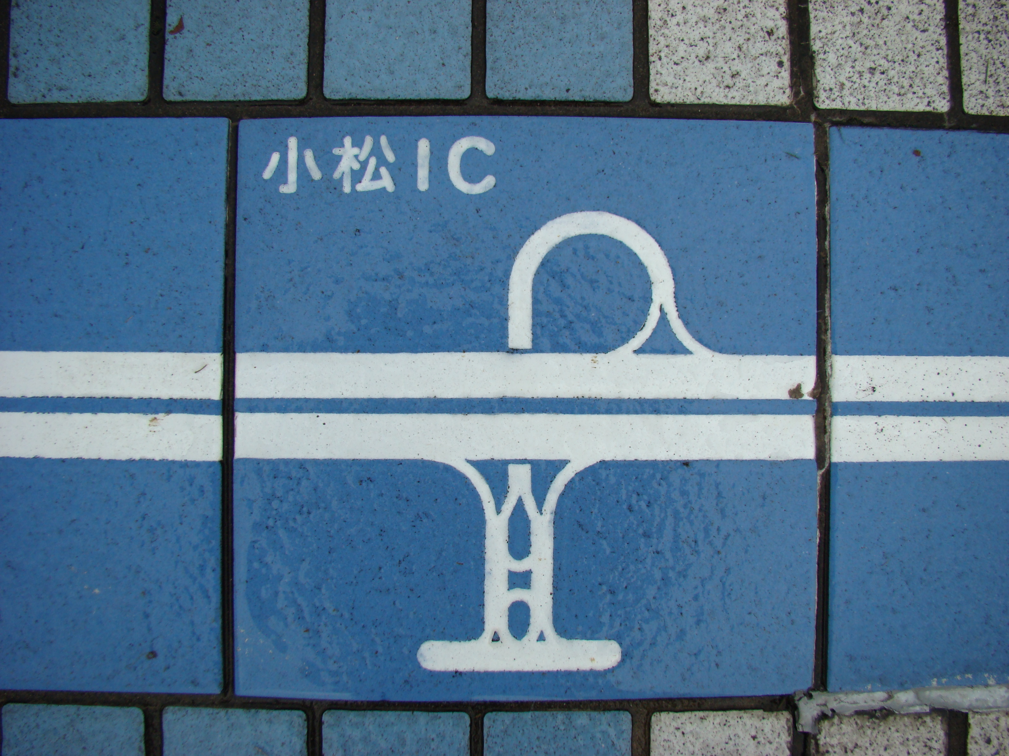 The tile which designed a shape of the Komatsu Interchange（Hokuriku Expressway）（There is this tile in Hokuriku Expressway Nadachi-Tanihama Service Area.）. Place - Chayagahara,Joetsu City,Niigata Prefecture,Japan Date - August 9, 2009 Format - JPEG, 3264x2448pixel, 24bit colors. Photographer - NALA Wiki (talk)